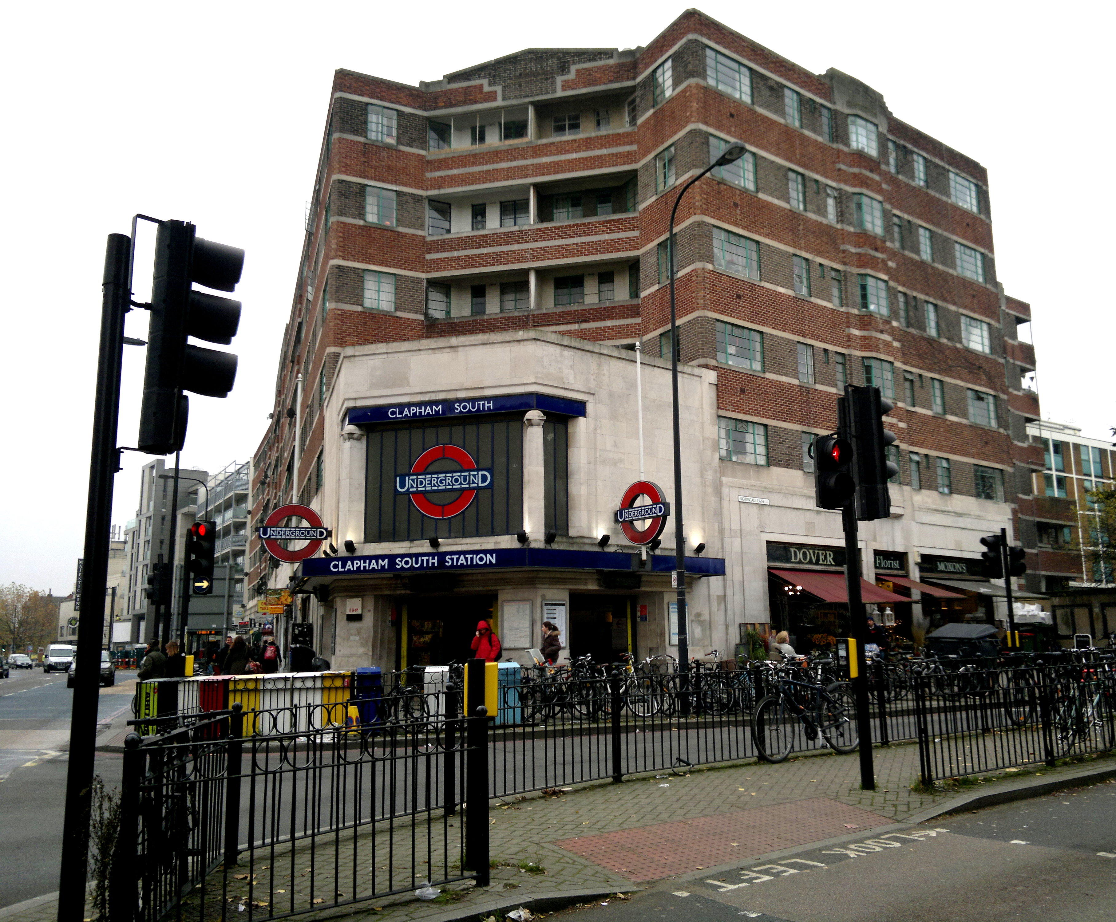 Clapham South underground station.